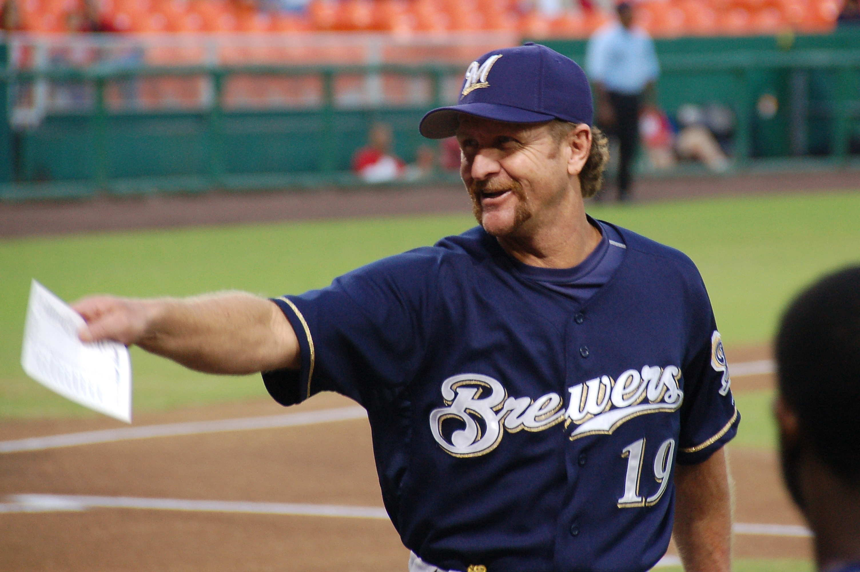 Major League Baseball Hall of Famer Robin Yount.